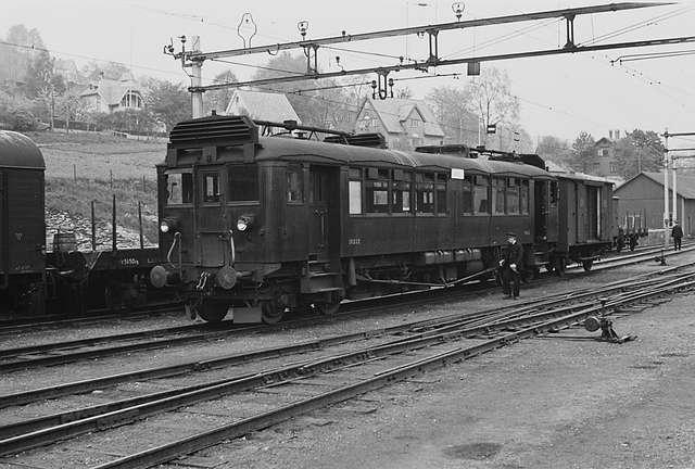 Norges Statsbaner type 83 electric multiple unit at Voss, Norway.